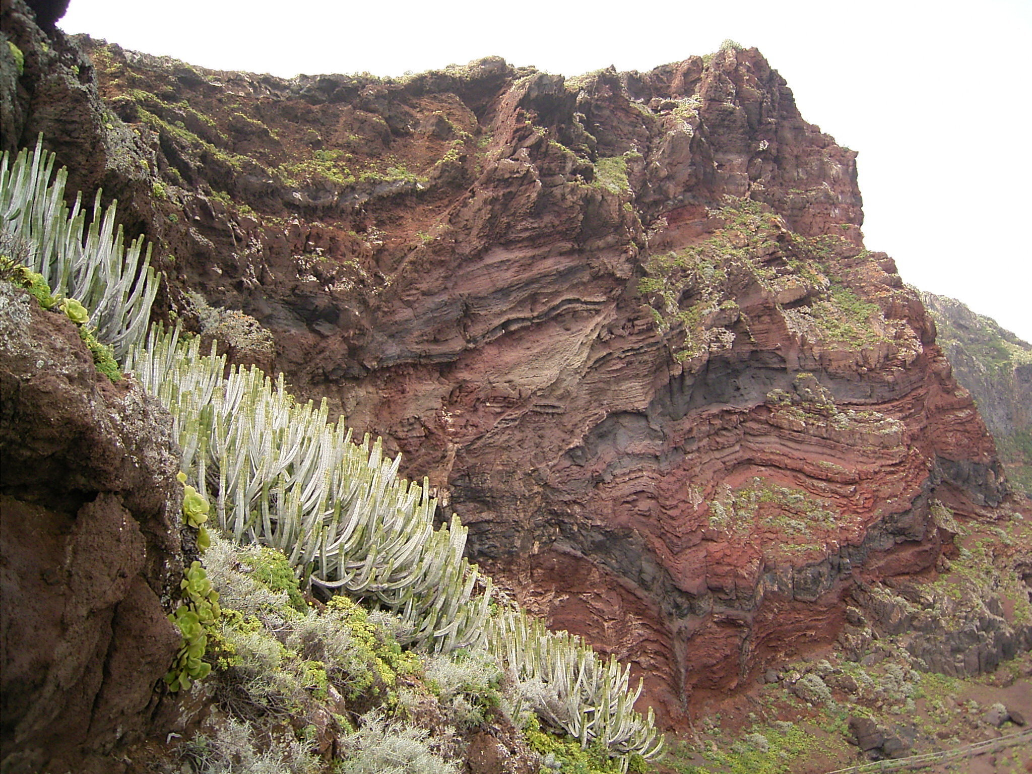 Euphorbia canariensis growing in Puntallana, La Palma, Canary Islands